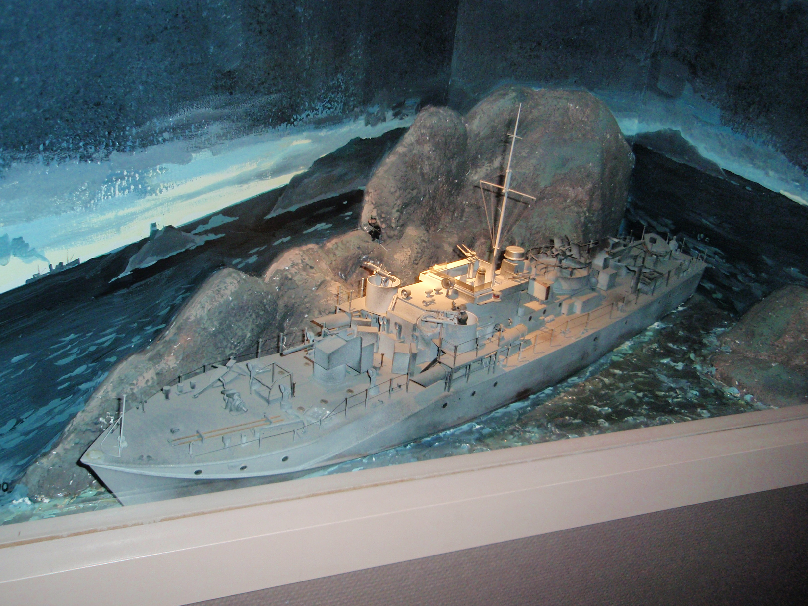 Model of a Norwegian SC-497 class submarine chaser on display at the resistance museum in the Archbishop's Palace in Trondheim, Norway.